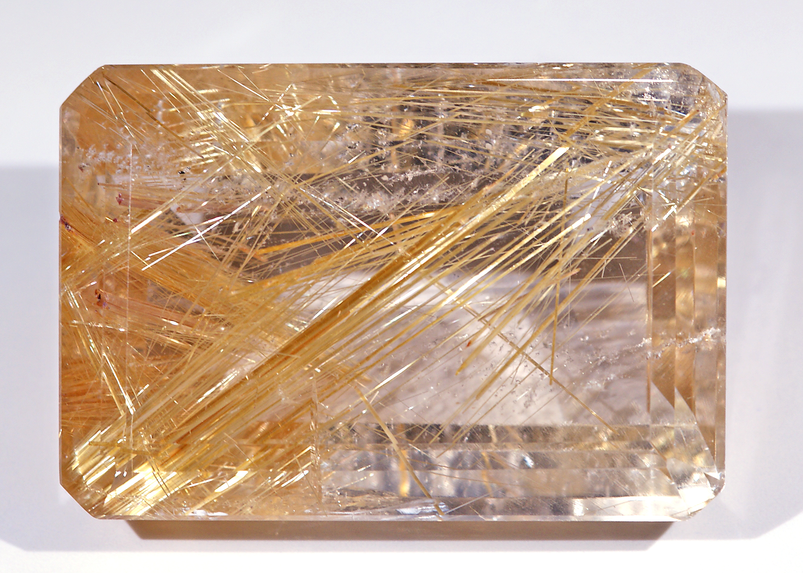 Rutile on quartz - Minas Gerais - Brasil (3.5x2.5cm)